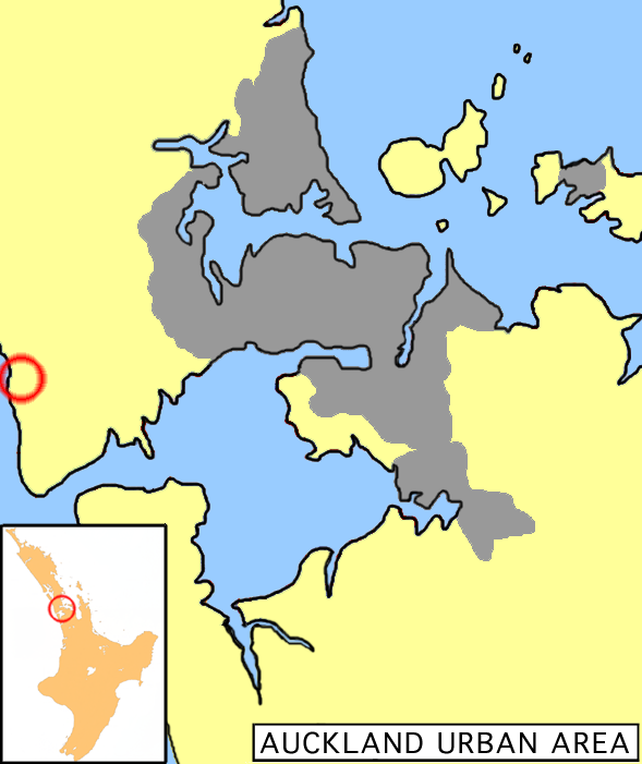 Location map of Piha, New Zealand